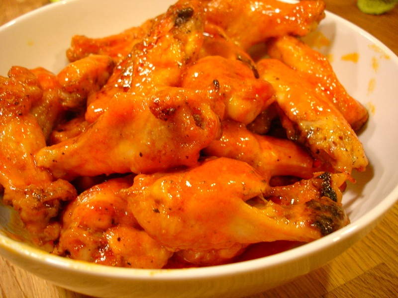 A plate of home-made buffalo wings.